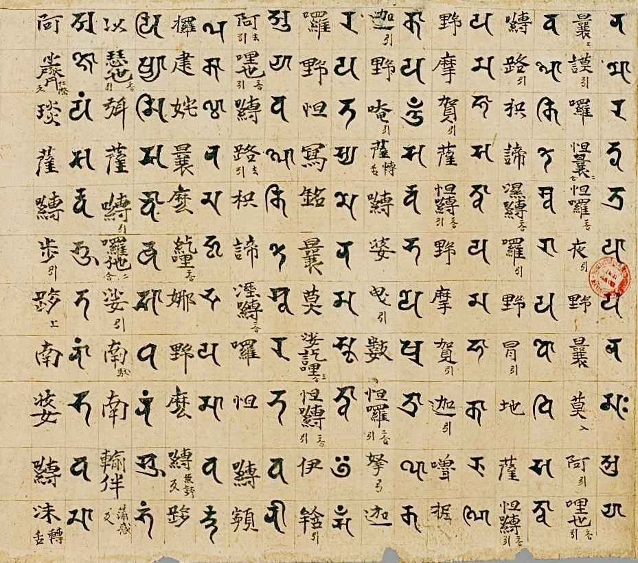 This is a cropped version of Pelliot chinois 2778.jpg available in wikimedia commons with creative commons license.